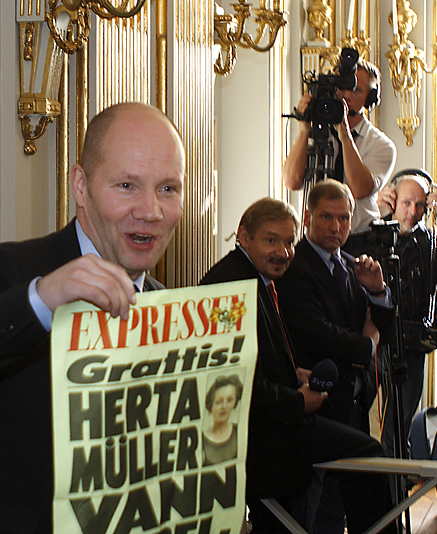 Peter Englund (born April 4, 1957 in Boden) is a Swedish author and historian, and the permanent secretary of the Swedish Academy since June 1, 2009.